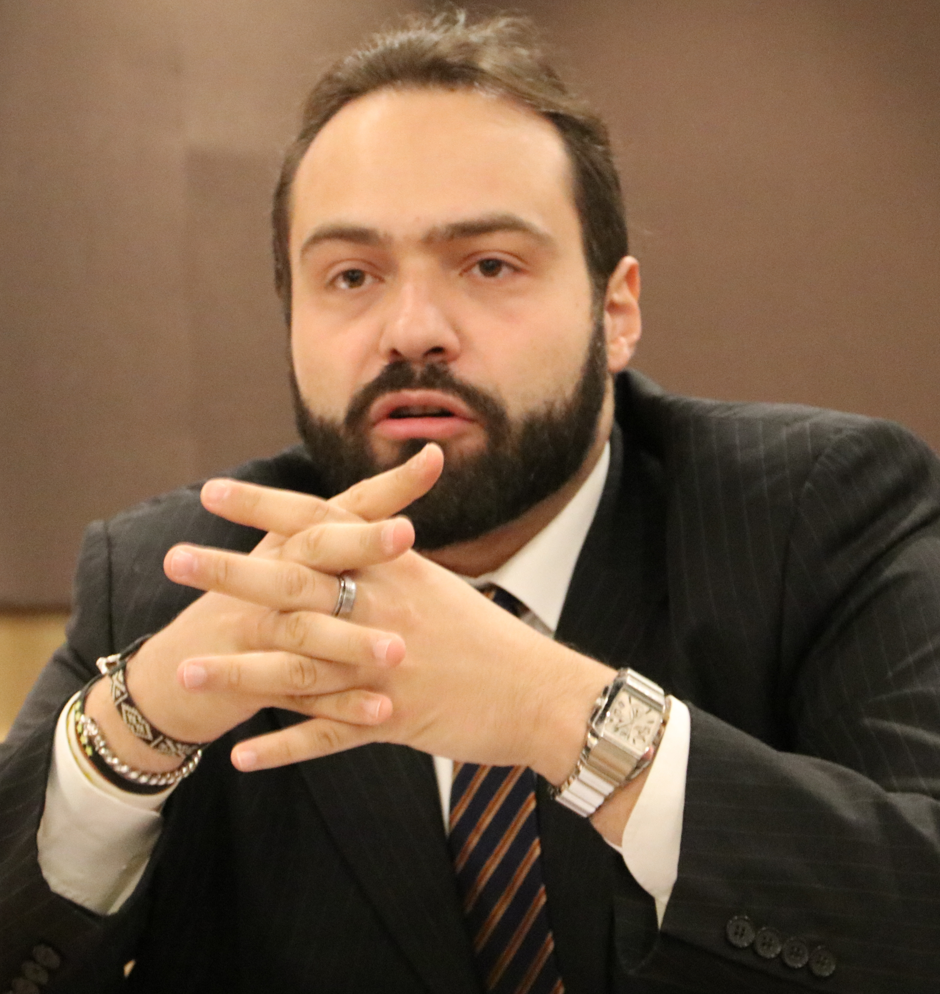 EP member Fabio Massimo Castaldo (Italy), Chisinau, 12 November 2016